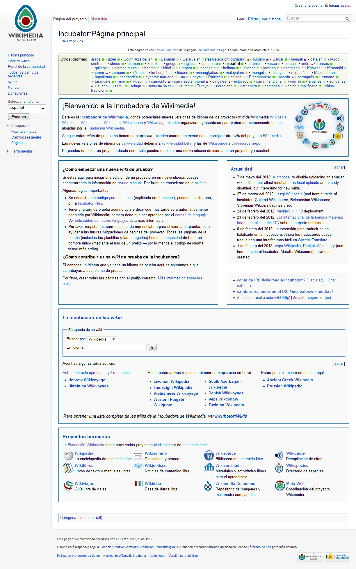 Wikimedia Incubator screenshot (in Spanish)